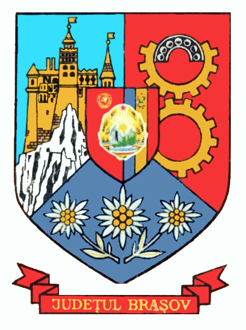 Communist coat of arms of Brașov County, Socialist Republic of Romania.